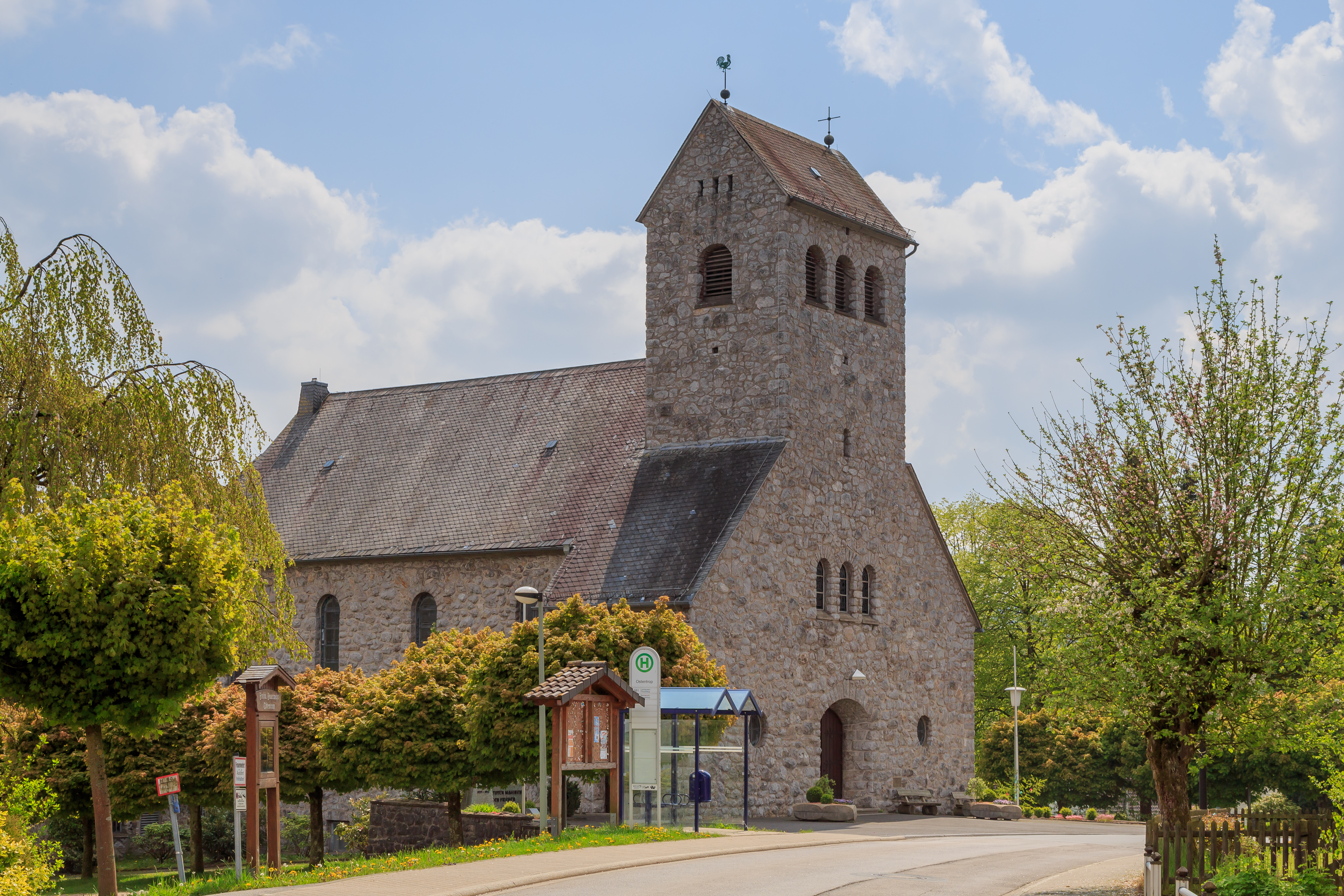 Ostentrop, Germany: Catholic Church St. Lucia.